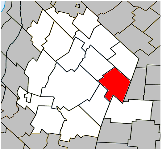 Location of Saint-Liboire, Quebec within Les Maskoutains Regional County Municipality.